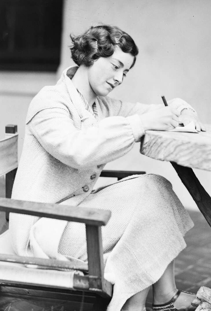 Miss Frances Bult, New South Wales, 3 February 1934